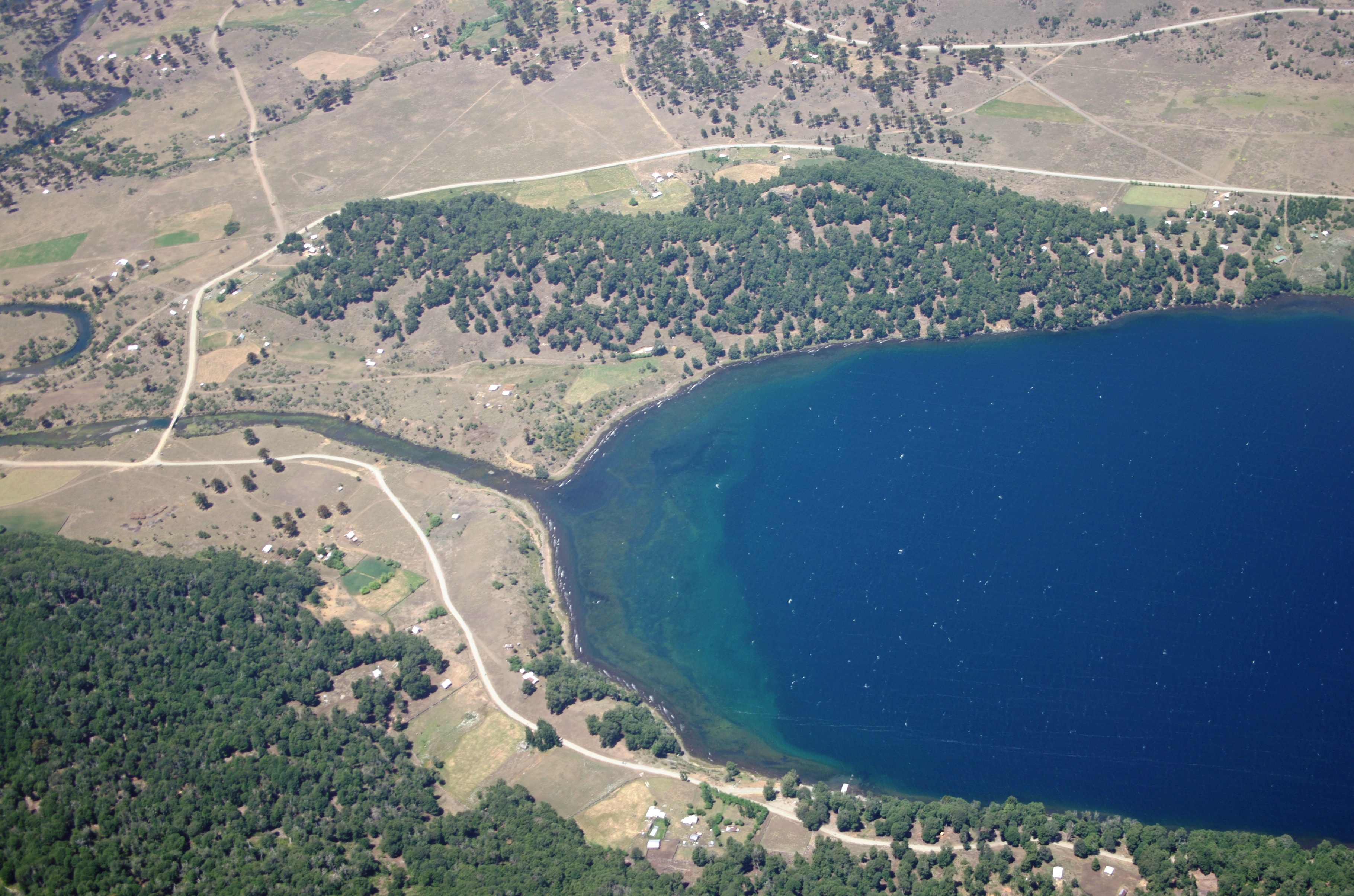 Laguna Icalma, Lonquimay, Chile